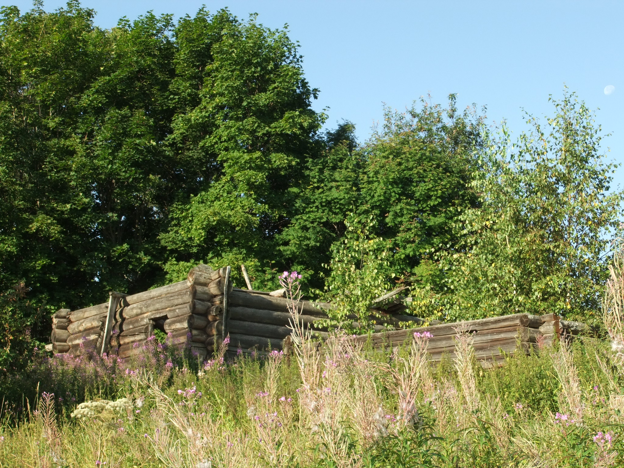 May this be the only house that remains from Vysokovo? According to the map, Vysokovo is (was) an abandoned village a mile or so NW of Kornilovo, in the Poshekhonye District of Yaroslavl Oblast. The house is seen from the logging road that goes from Kornilovo to the woodlots a few miles to the northwest